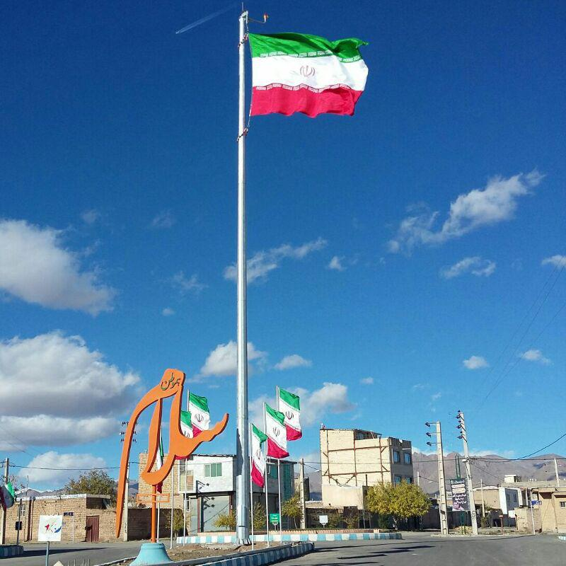 ghaleh hoseinieh